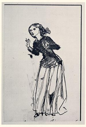 Anna Maria Howitt (sic) by Dante Gabriel Rossetti 1852-4